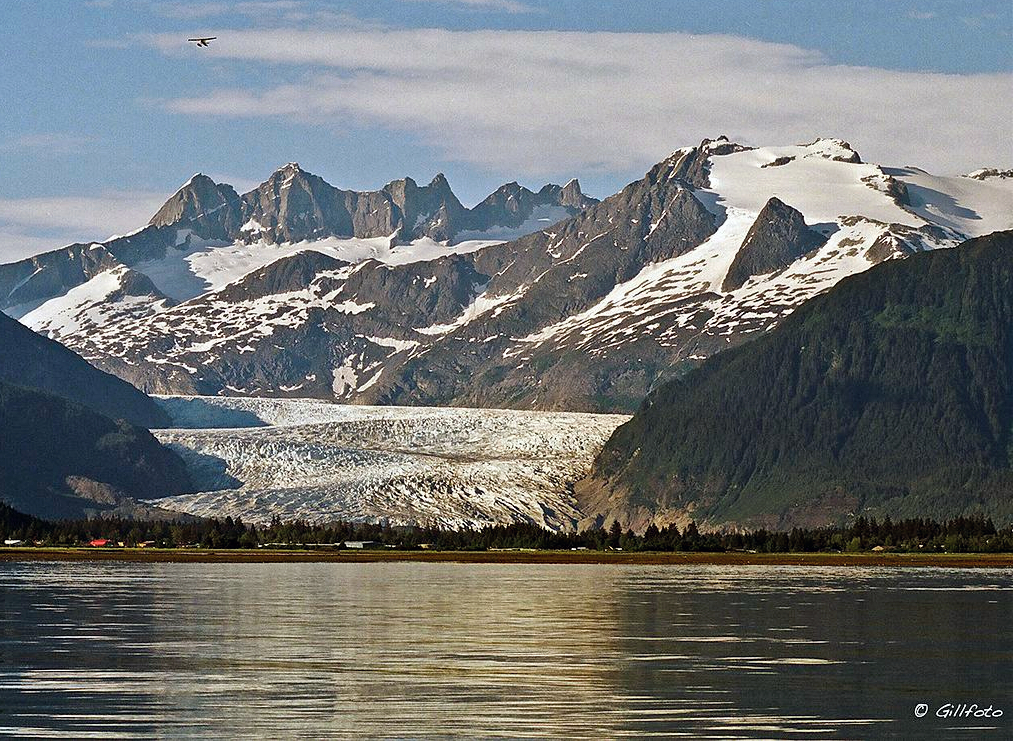 Mendenhall Glacier, Mendehall Towers, and Mount Wrather near Juneau, Alaska